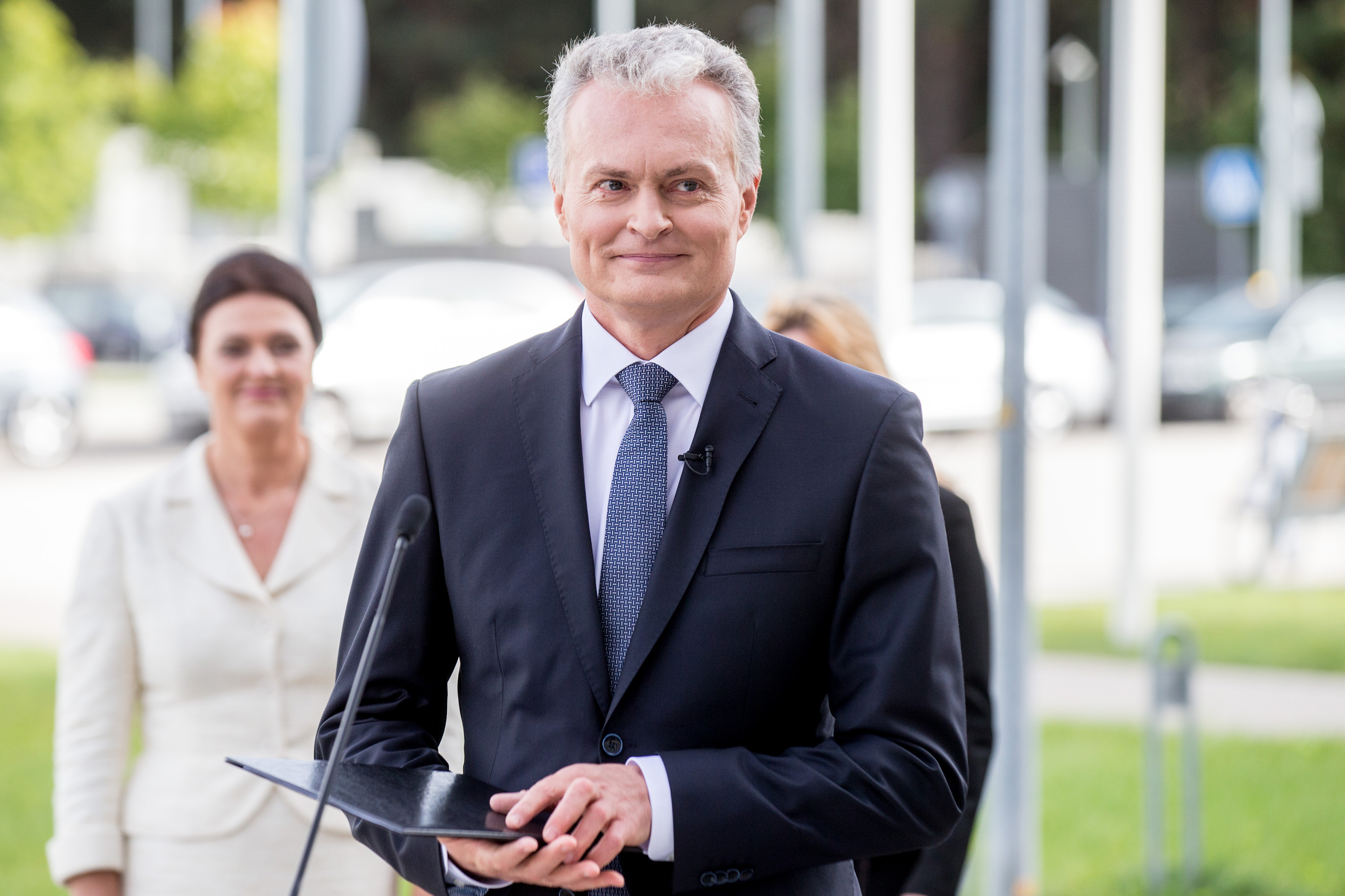 Lithuanian President Gitanas Nausėda